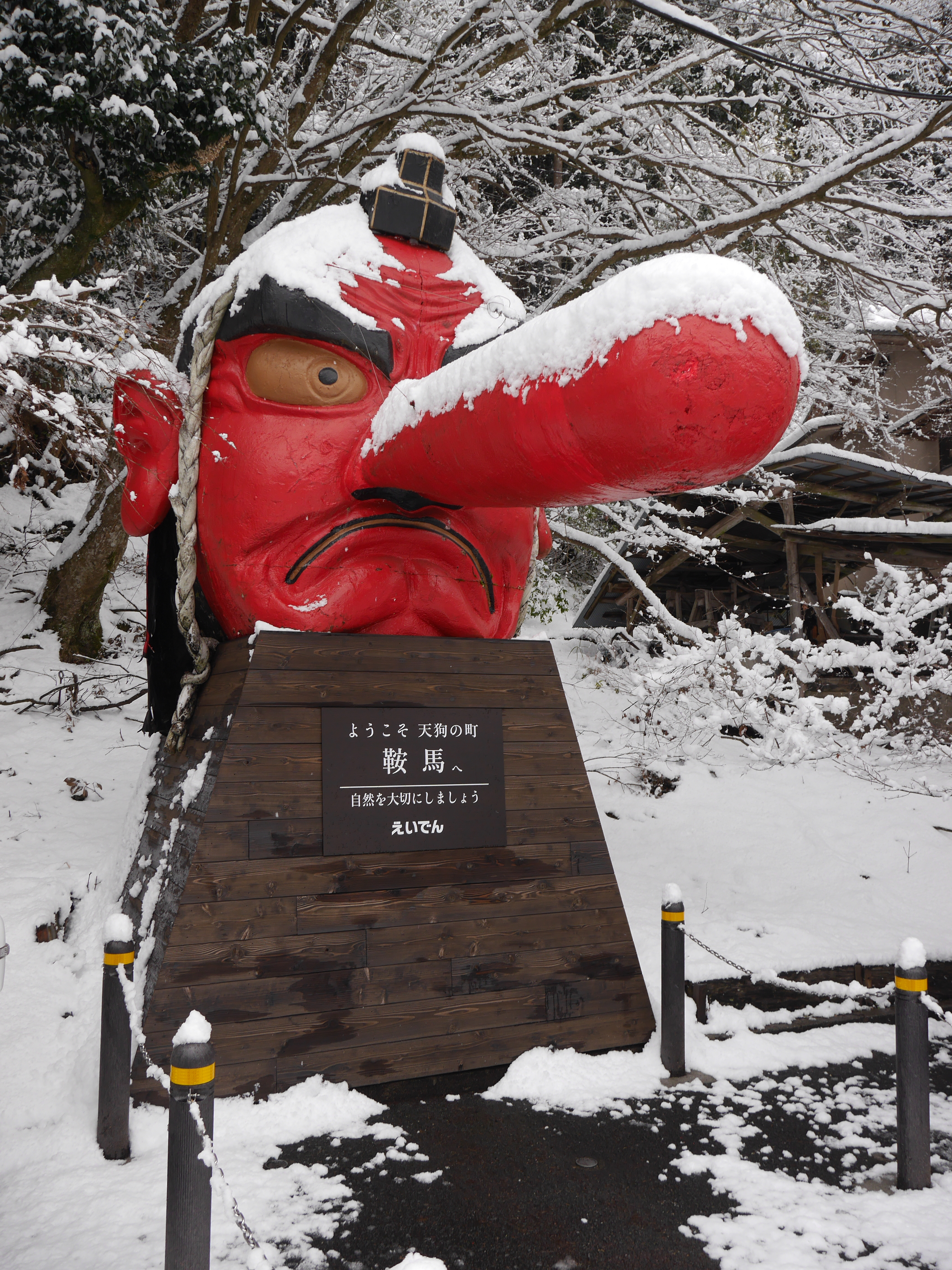 Kurama tengu statue at Eizan electric railway Krama station covers with snow